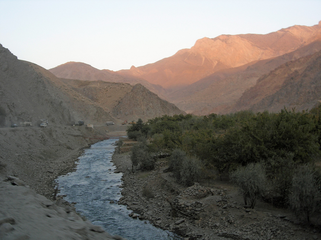 More from Afghanistan on my site contained in these posts. CC